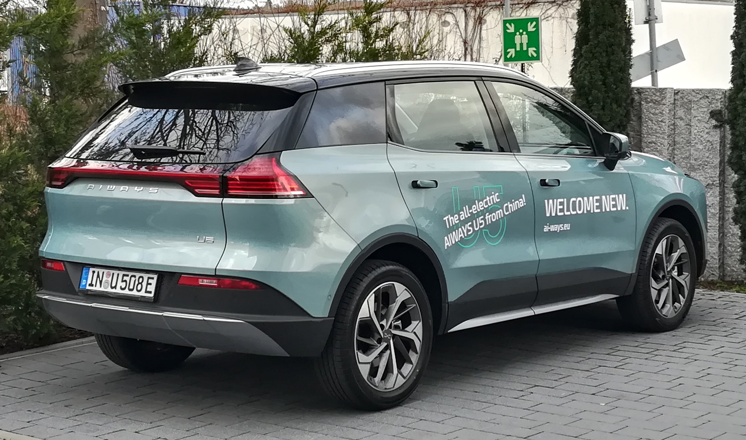 Aiways_U5 in Leonberg